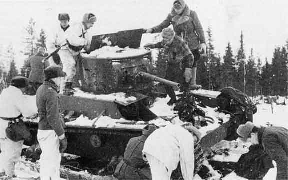 Finnish soldiers, some in snow camouflage, inspecting an abondoned Soviet T-26 tank after the Battle of Raate road during the Winter War.